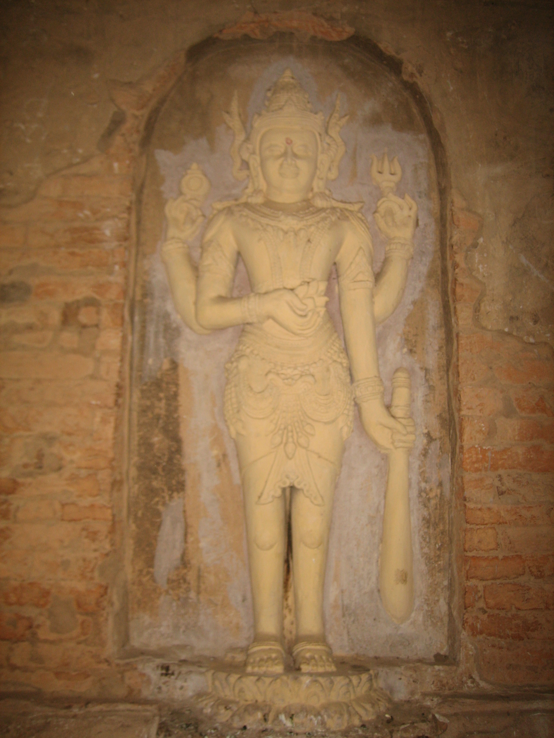 Statute of Vishnu at the Nat-Hlaung Kyaung Temple, Pagan (Bagan)